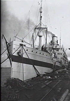 Port Melbourne, Vic. . The hospital ship Tasman tied up at the wharf.